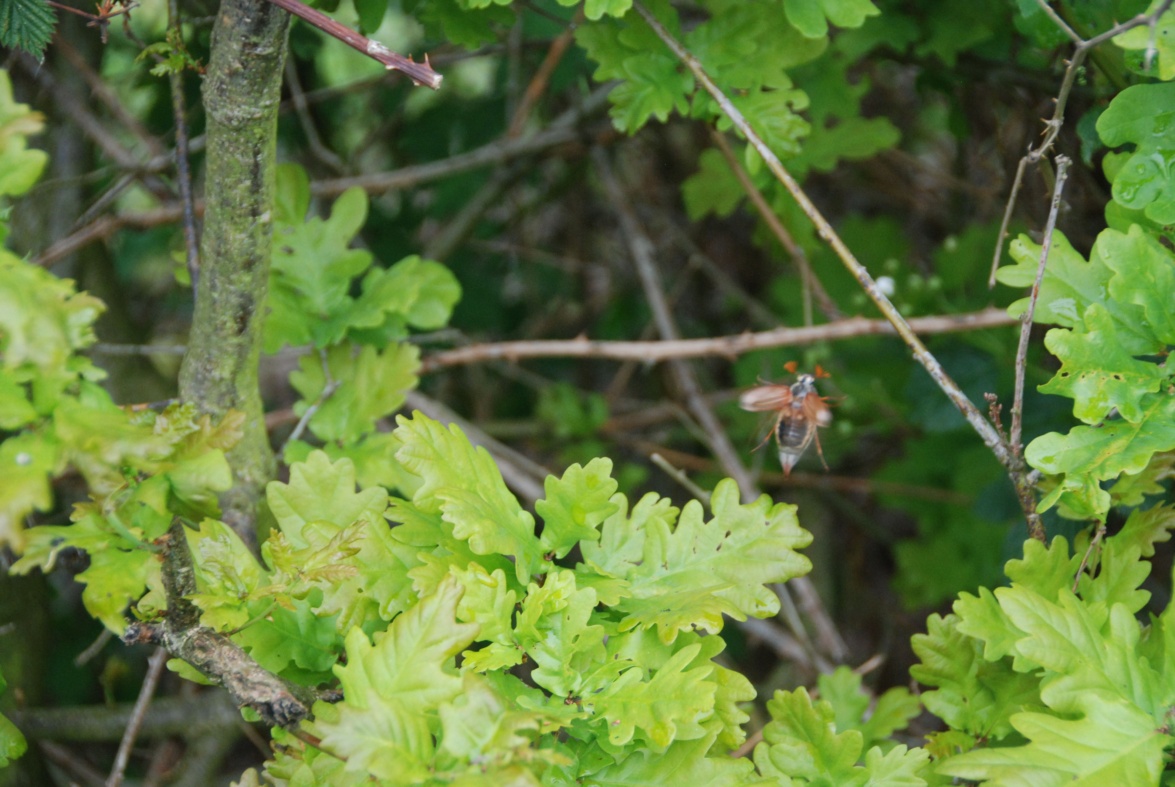 Vliegende meikever in het Loohuisbos